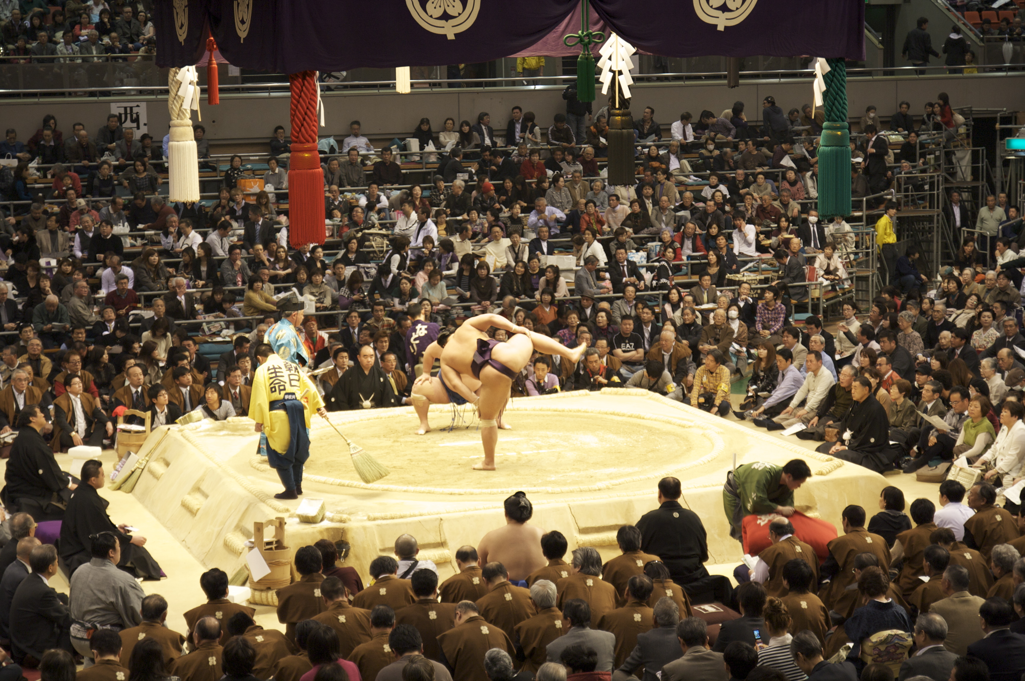 2010 March Grand Sumo at Osaka. Canon EOS 350D